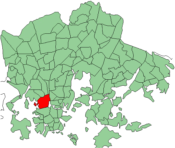 Districts of Helsinki, Etu-Töölö highlighted - new version